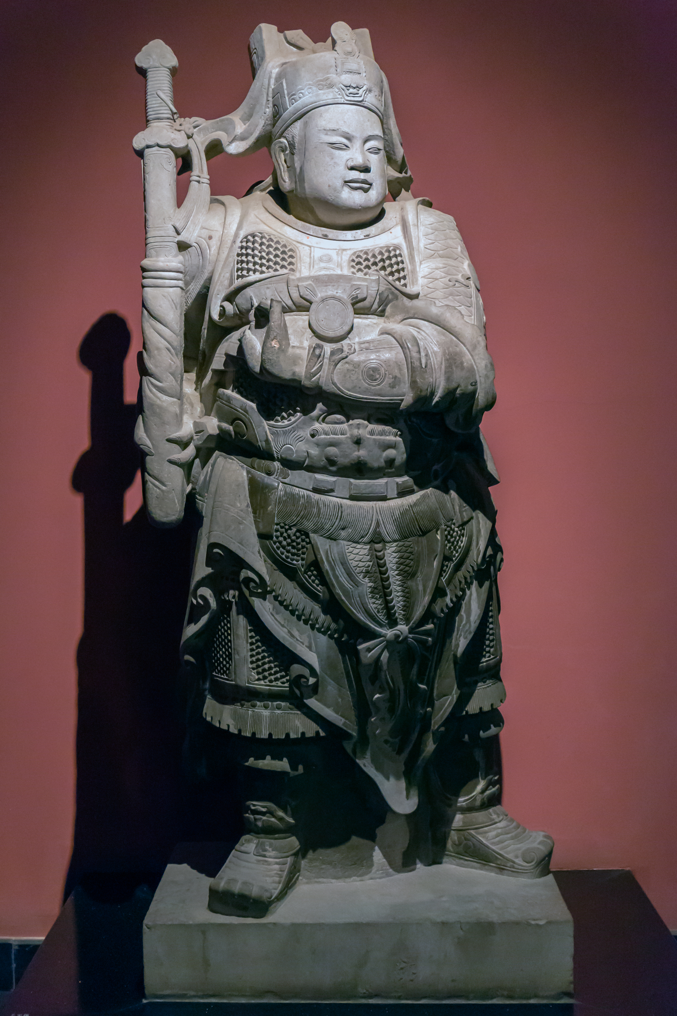 Guan Ping (關平)